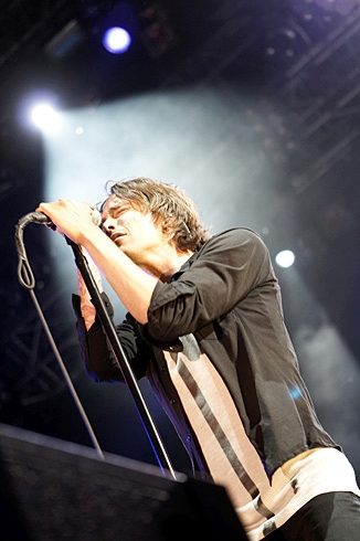 Brandon Boyd, Incubus, Nova Rock 2007